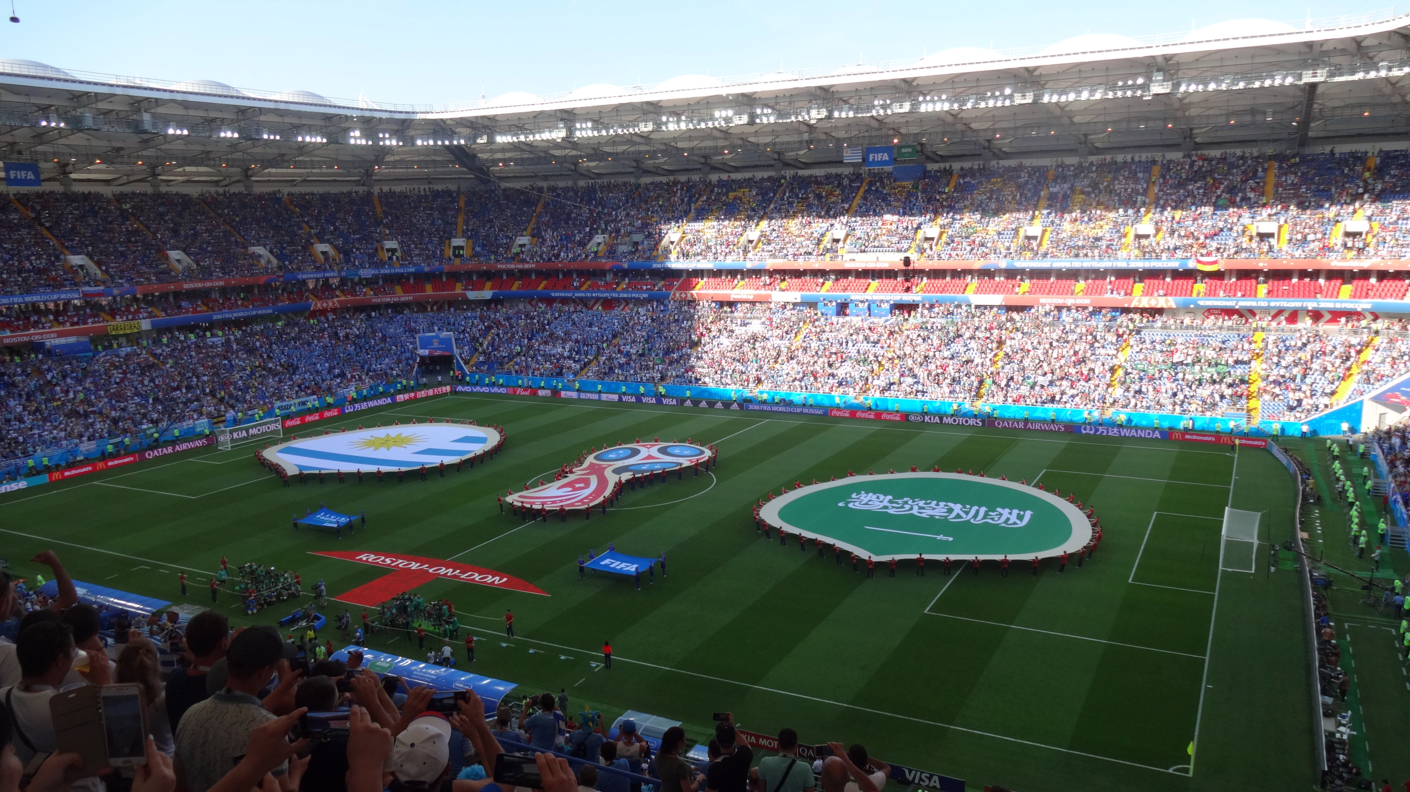 Uruguay - Saudi Arabia match, Group A, 2018 FIFA World Cup. Anthems ceremony.